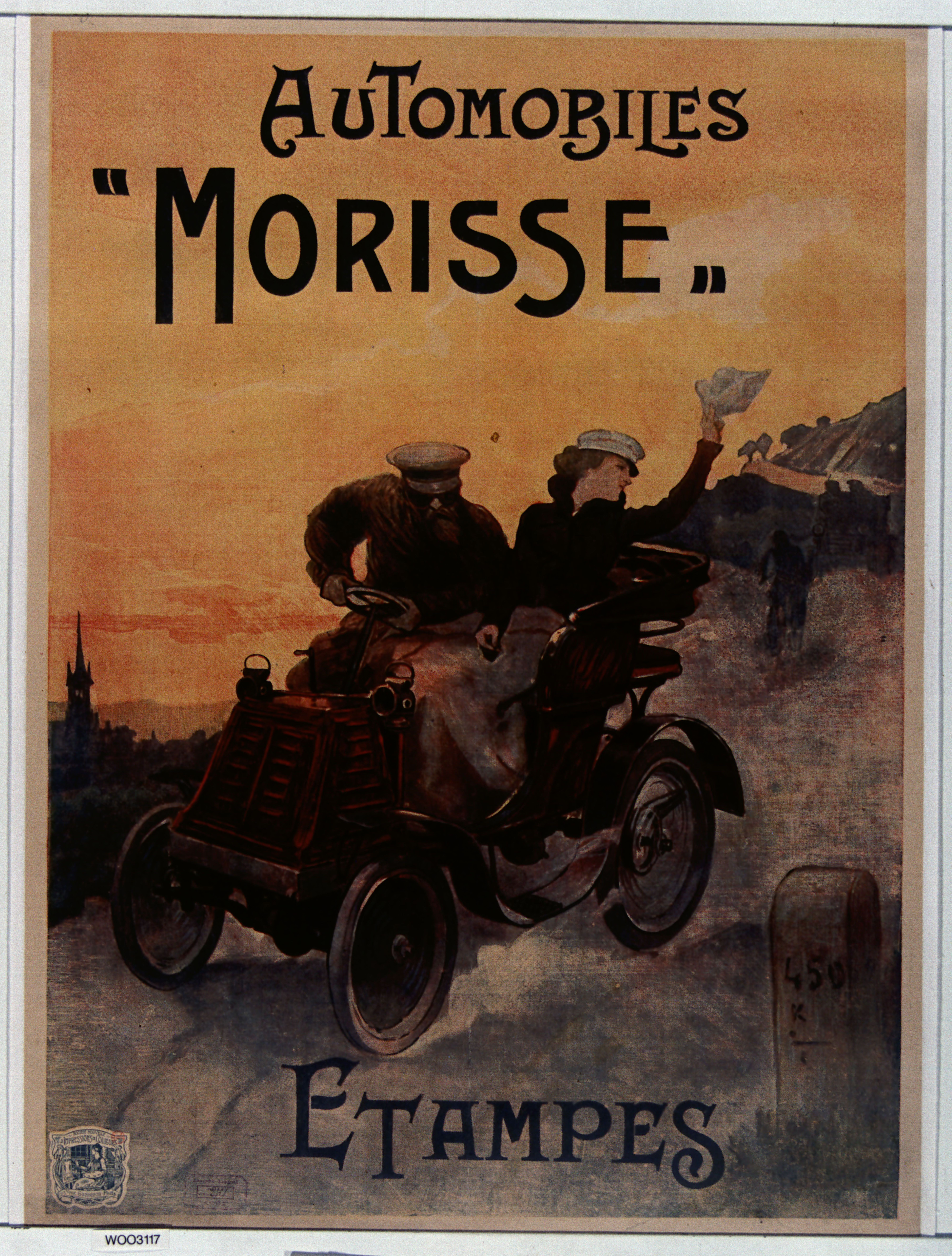 Advertisement for Morisse automobile company, Etampes, France